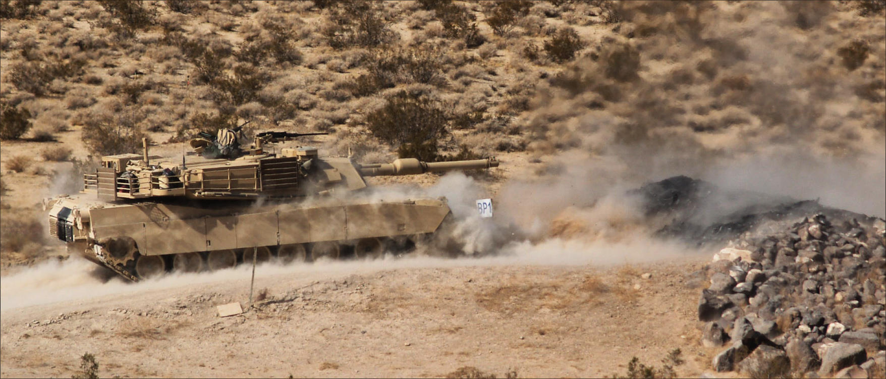 M1A1 Abrams Conduct Gunnery at Fort Irwin, California